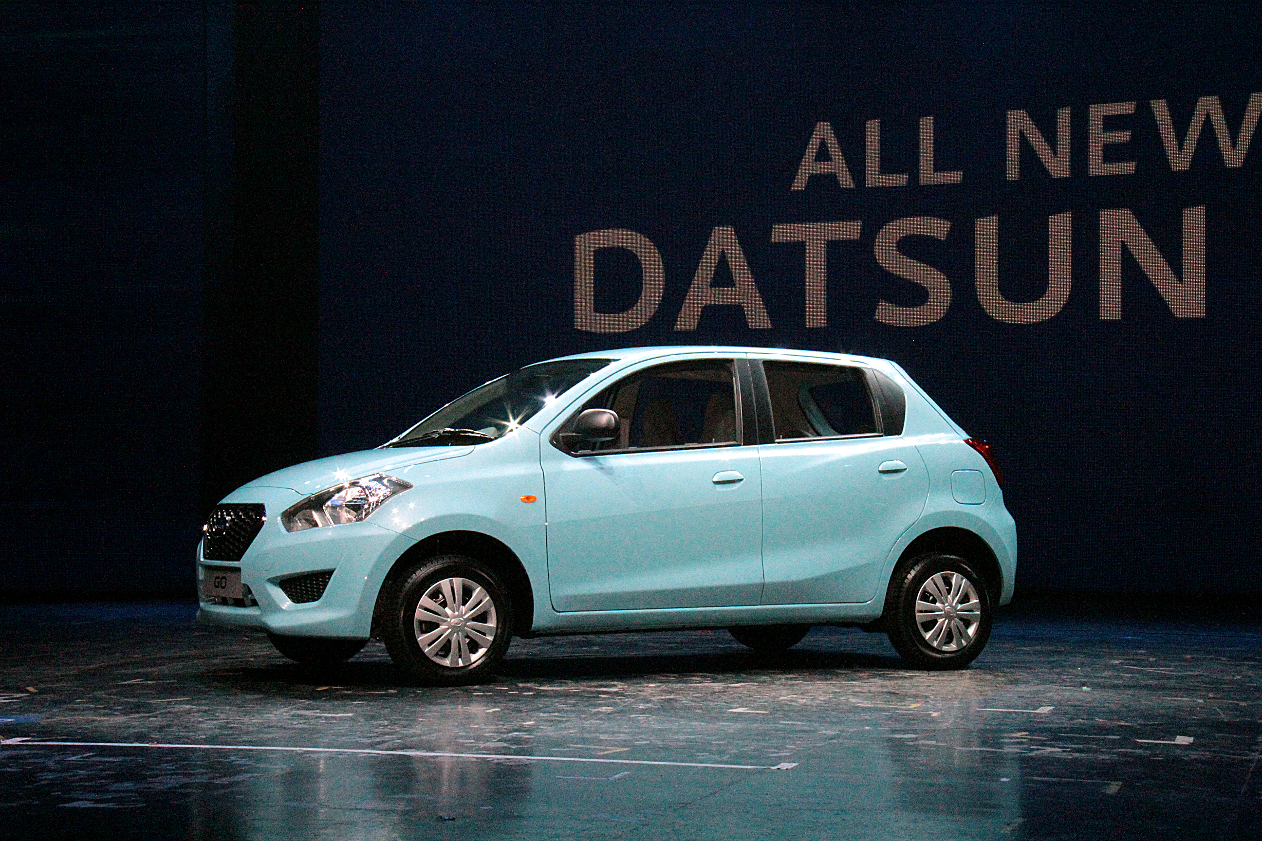 Datsun Go Launch New Delhi India 07/15/2013 - Picture by Bertel Schmitt